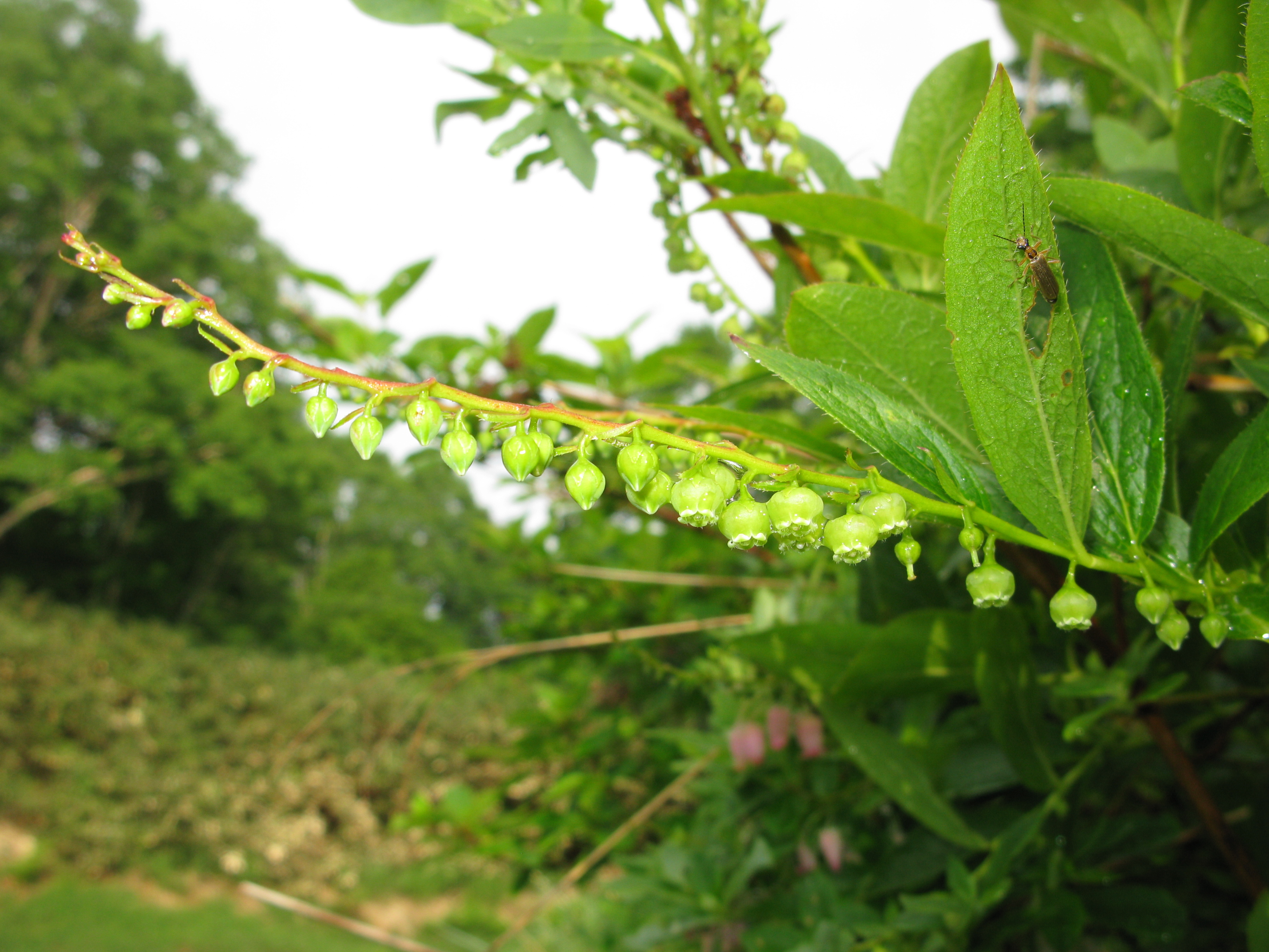 Leucothoe grayana ,Mt. Bandaisan, Fukushima pref., Japan